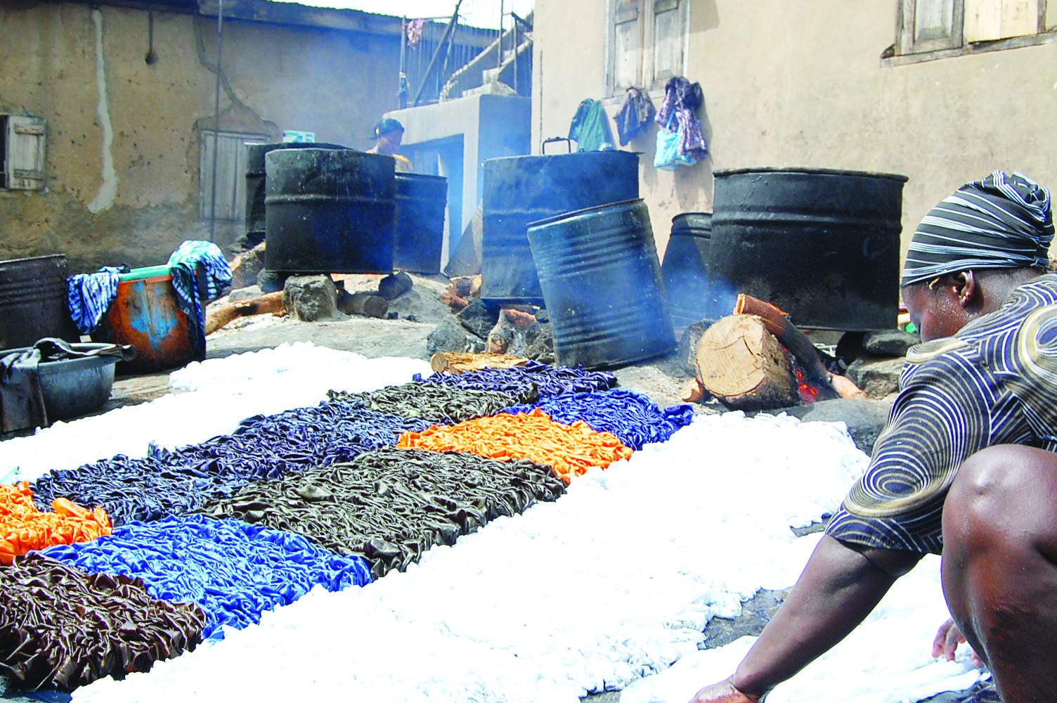 Adire first emerged in Abeokuta, Nigeria. A town noted for cotton production, weaving and indigo-dyeing in the 19th century. This is an image of "African people at work" from Nigeria